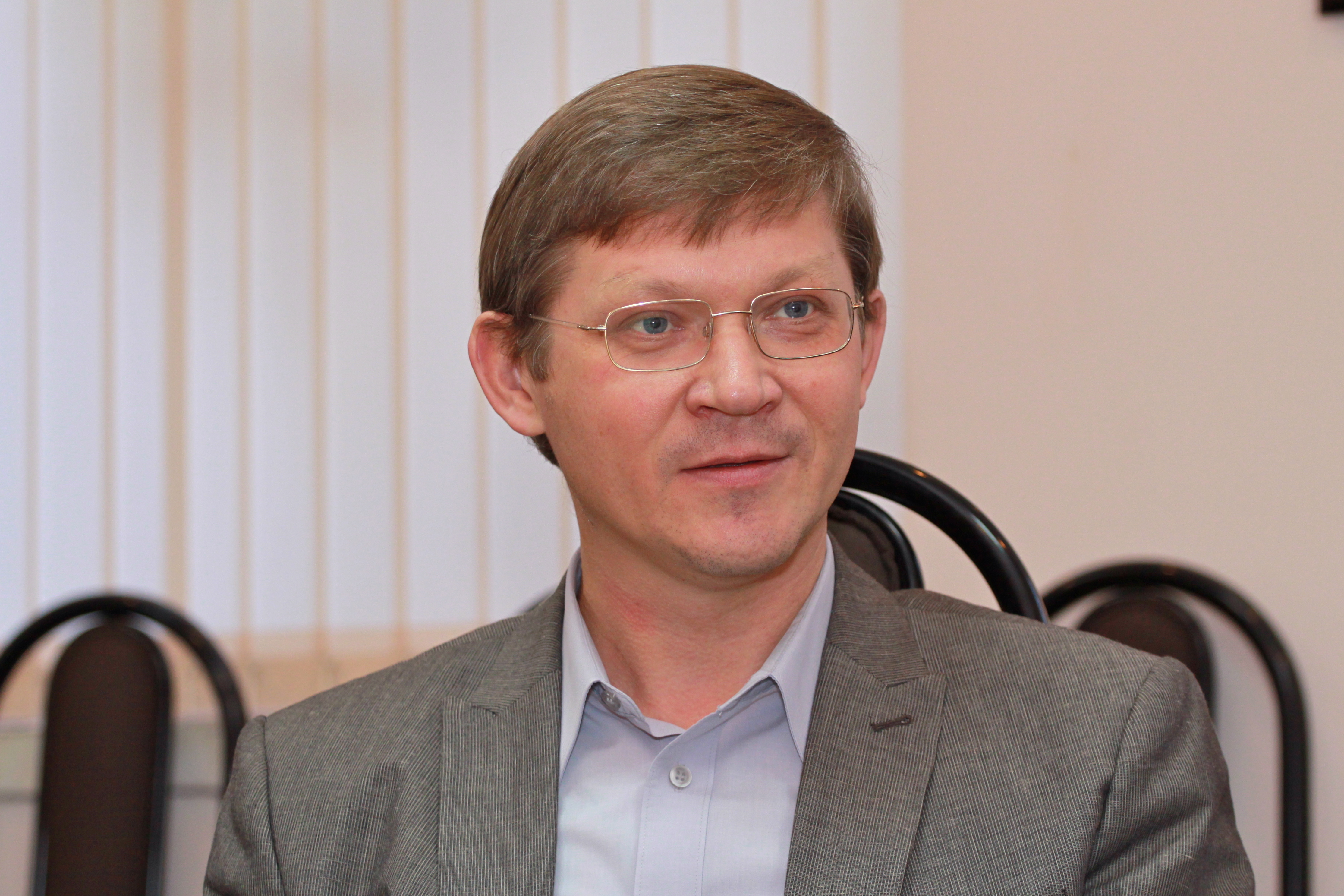 Vladimir Aleksandrovich Ryzhkov, Russian independent politician and former Russian State Duma member.